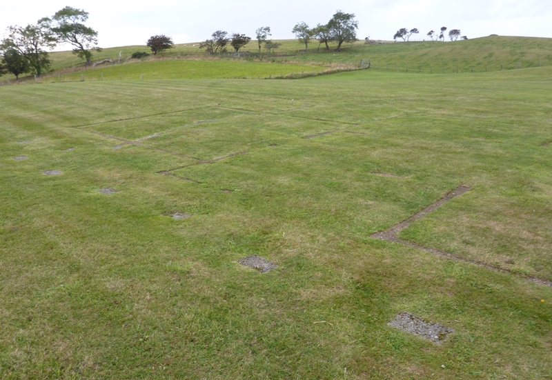 Doonhill Homestead, near Dunbar, East Lothian, Scotland - timber halls.